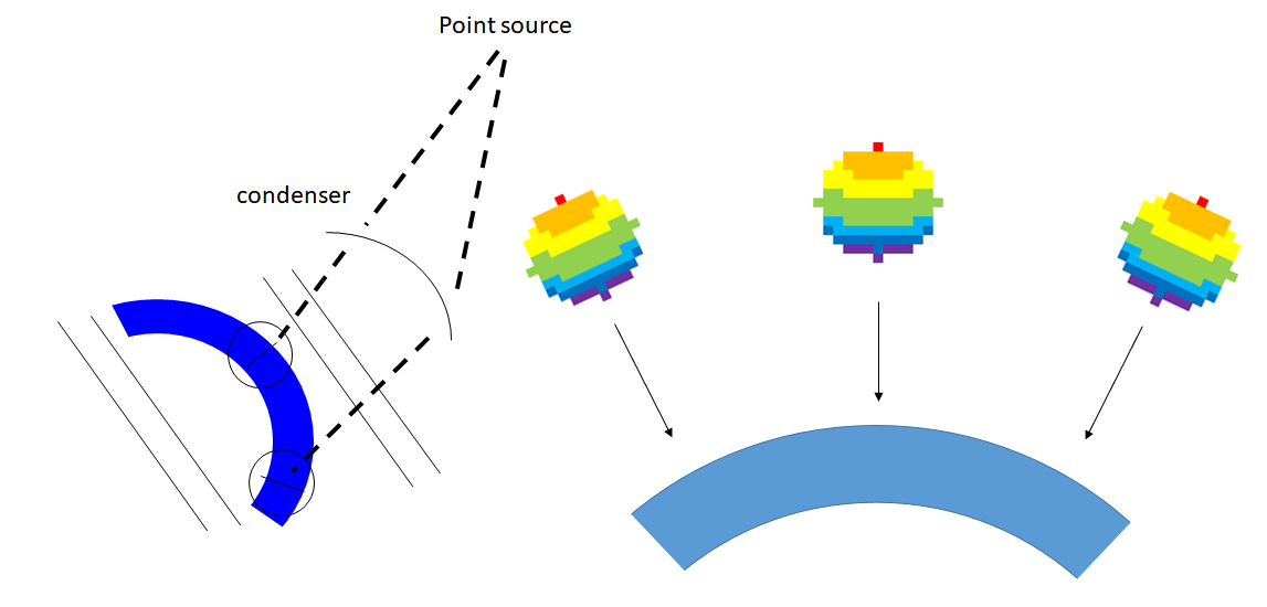 The EUV reticle illumination angles are rotated at different slit positions due to the arc-shaped slit used in EUV lithography tools, necessary for feasible image field corrections.[1][2][3][4][5][6][7][8][9][10] The reason for this is a mirror is used to transform straight rectangular fields into ring (arc-shaped) fields.[11] This is due to the off-vertical position of the point source (left),[12][13] which is actually a pupil position reflecting an arc-shaped image, such as light from an arc-shaped facet,[14][15] or other arc-shaped source (diverging beamlet).[16] In general, light reflecting from a curved optical surface (such as the condenser) produces arc shapes.[17] Consequently, the angle-dependent and wavelength-dependent mask multilayer reflectance manifests as an effective illumination nonuniformity (shown here as the color gradient) across the pupil (right).[18]